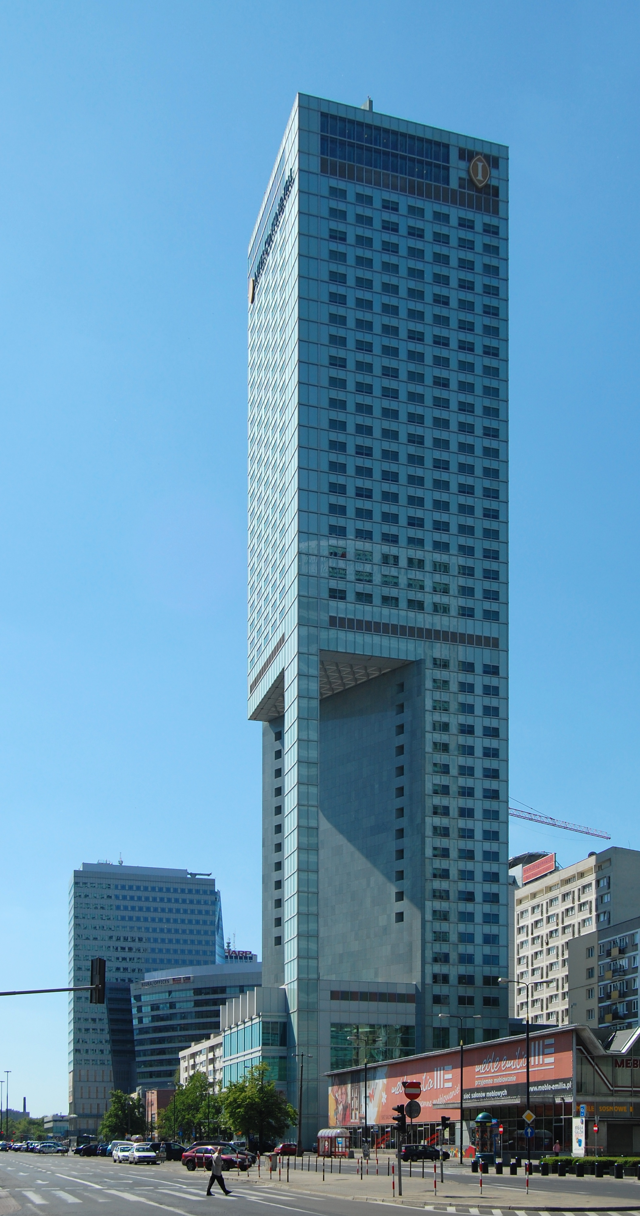 InterContinental hotel in Warsaw, Poland.